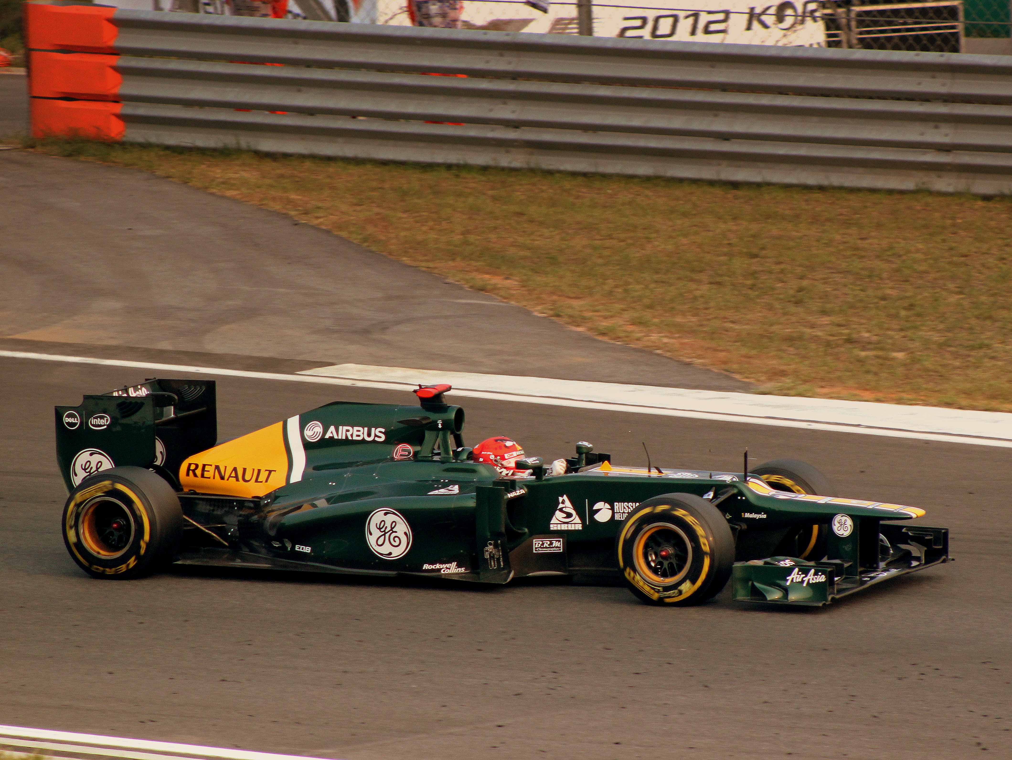 2012 CATERHAM RENAULT AT THE YEONGAM GRAND PRIX SOUTH KOREA OCT